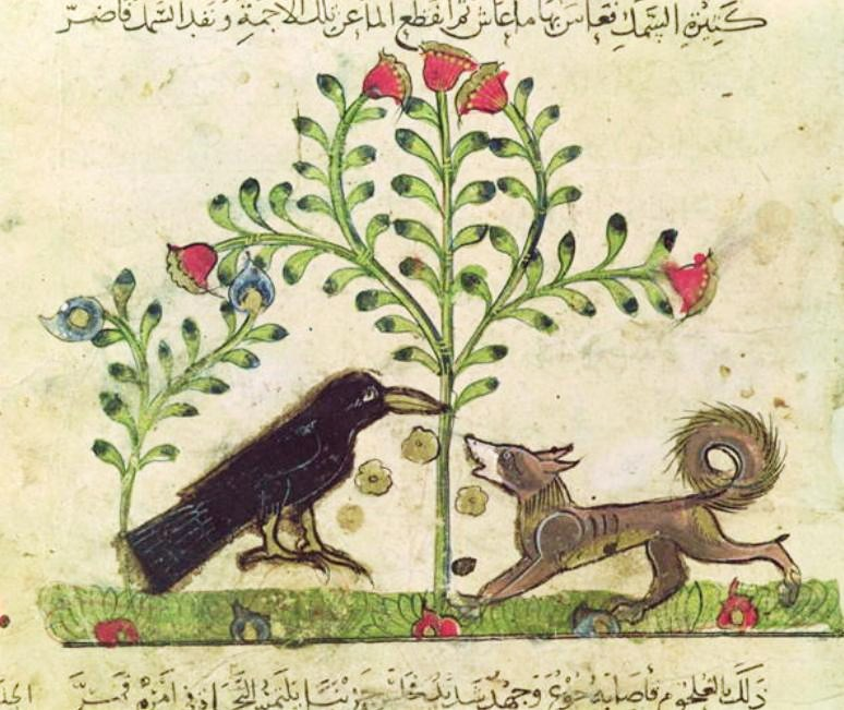 An illustration of the fable of the Fox and the Crow from Kalila and Dimna, otherwise known as the fables of Bidpai. The story is familiar in the West as one of Aesop's fables.